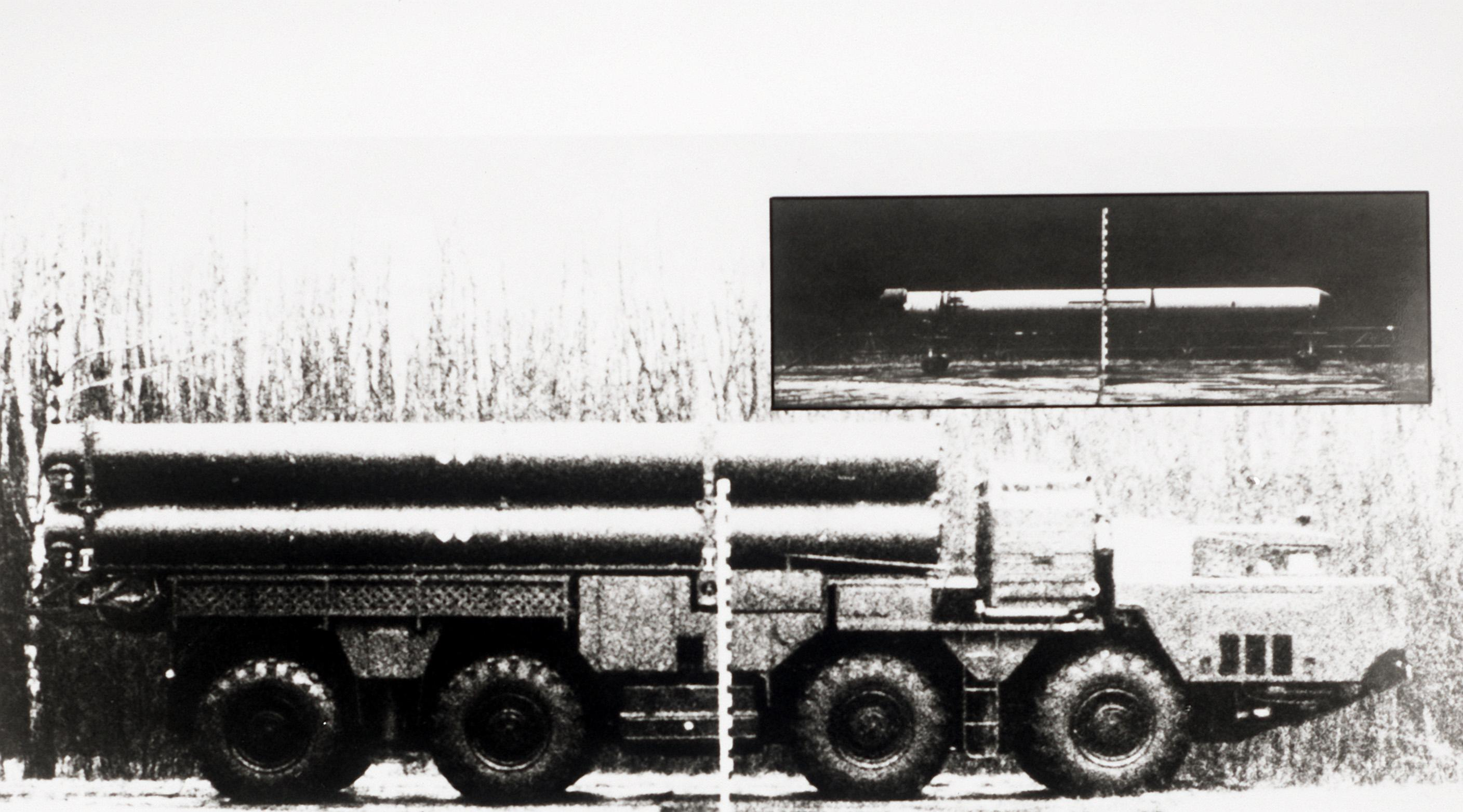 A view of the Transporter-Erector-Launcher (TEL) for the SSC-X-4 ground-launched cruise missile system with a close-up view of the SSC-X-4 missile in the insert.